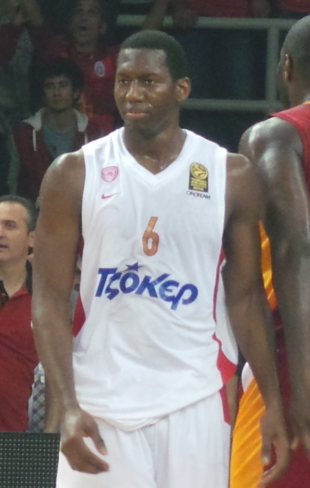 Bryant Dunston